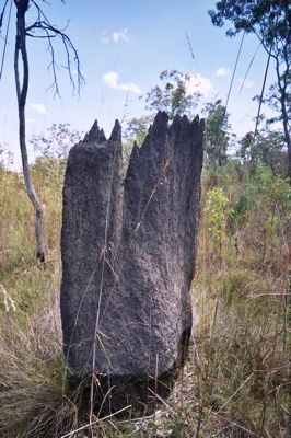 "Magnetic" termite mound